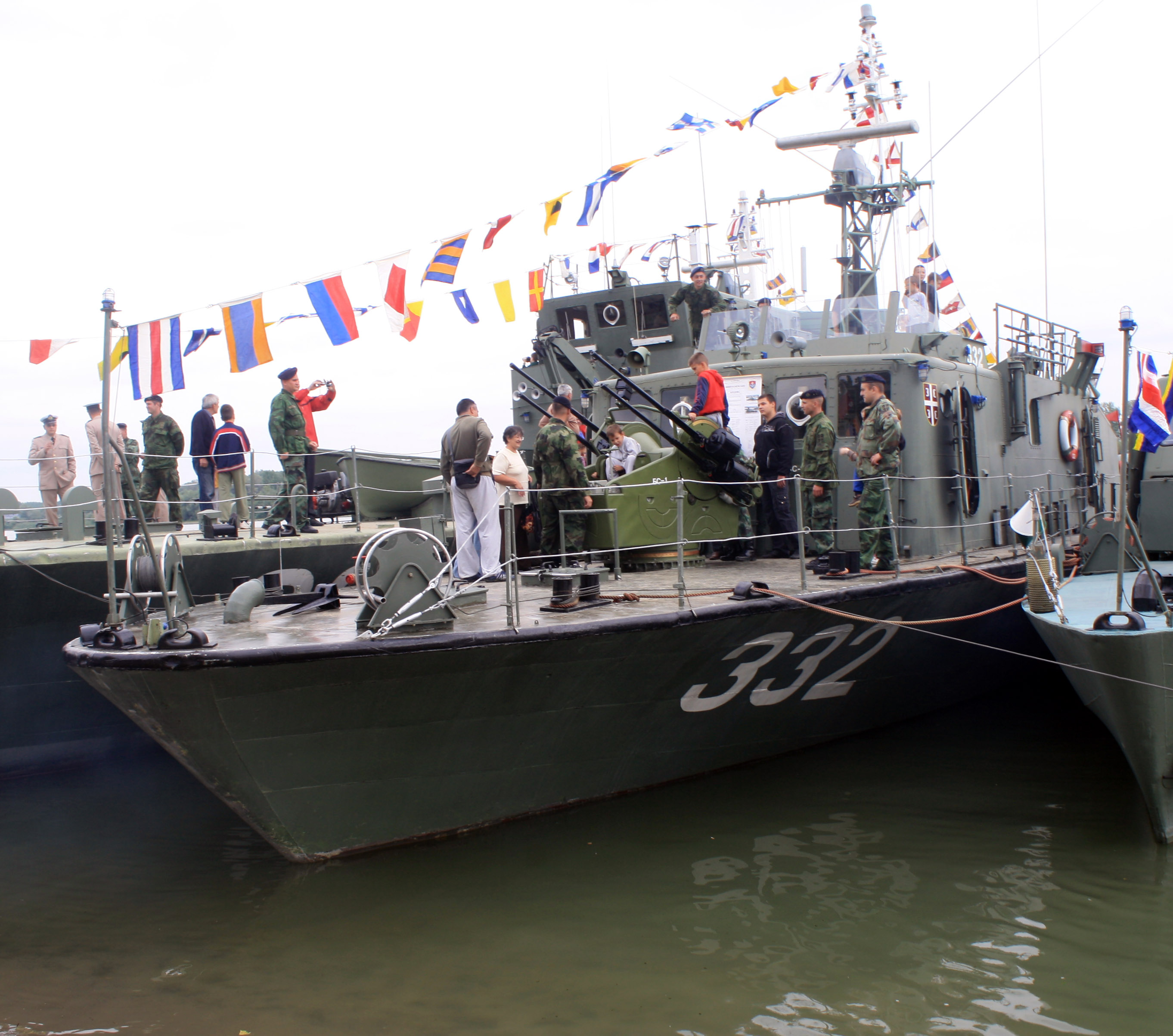 Neštin class river minesweeper RML-332 "Motajica" of Serbian River Flotilla anchored at Šabac city beach.